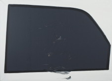 "Kacper" by Wilhelm Sasnal from the permanent collection of Zachęta National Gallery of Art (Warsaw, Poland)